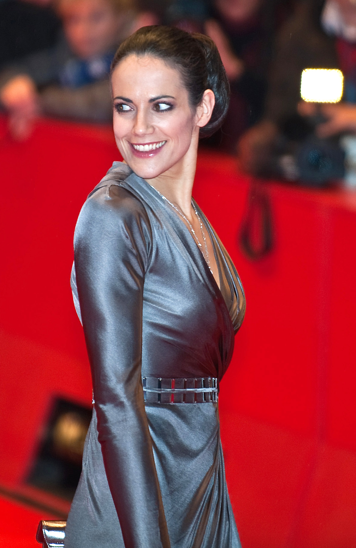 German actress Bettina Zimmermann arriving at the opening of the 60th Berlin International Film Festival